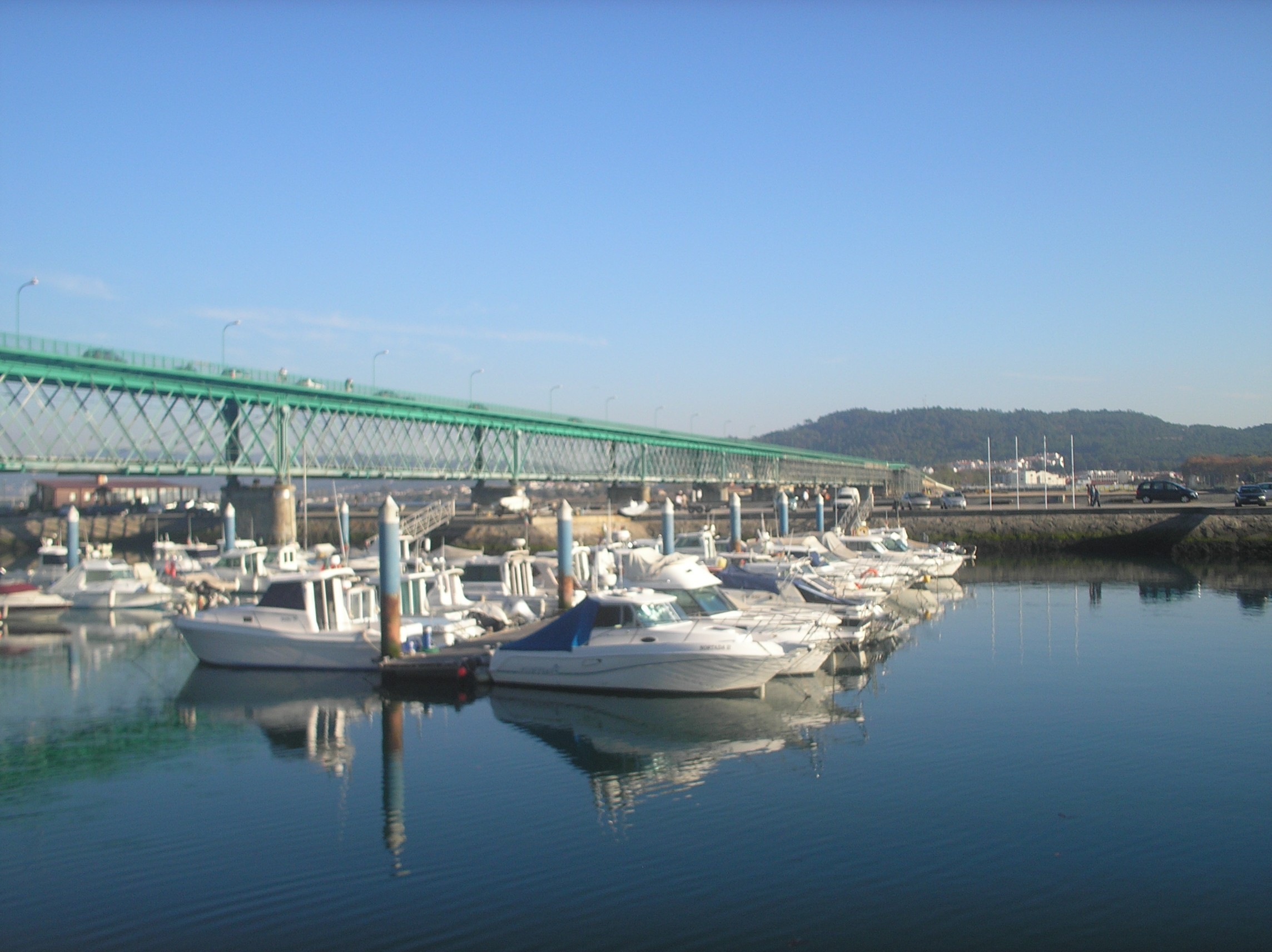 Eiffel bridge of the Minho railway over river Lima close to the city of Viana do Castelo; Portugal